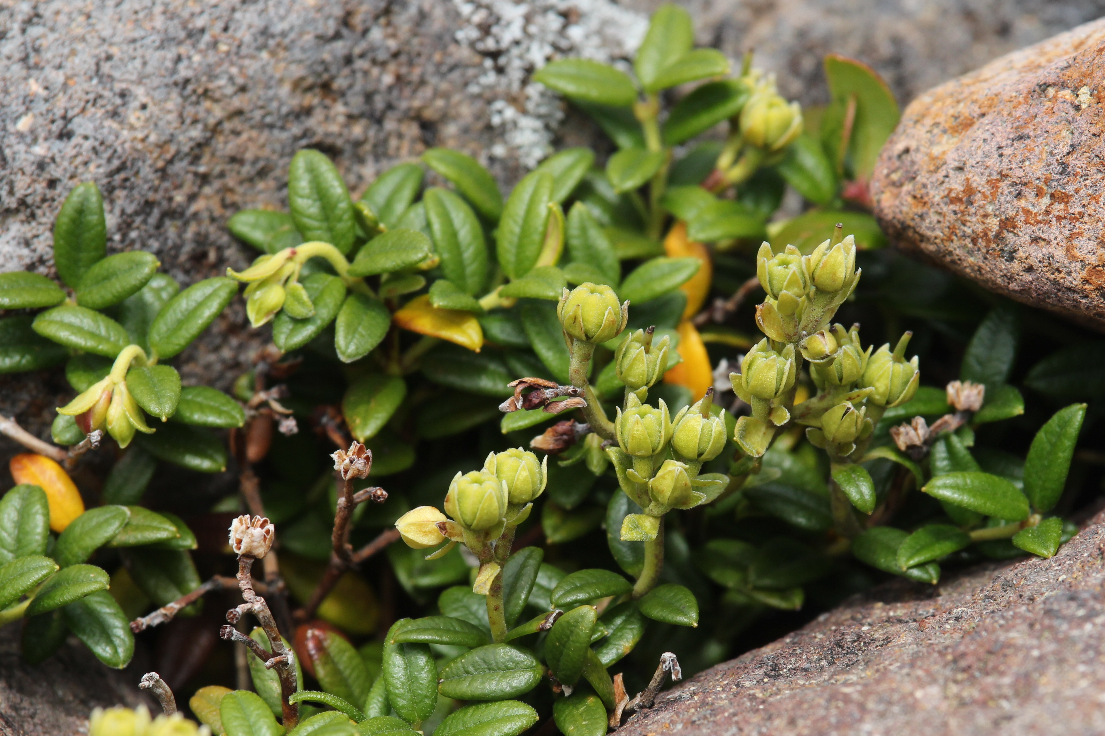 Arcterica nana in Mount Ontake, Japan.